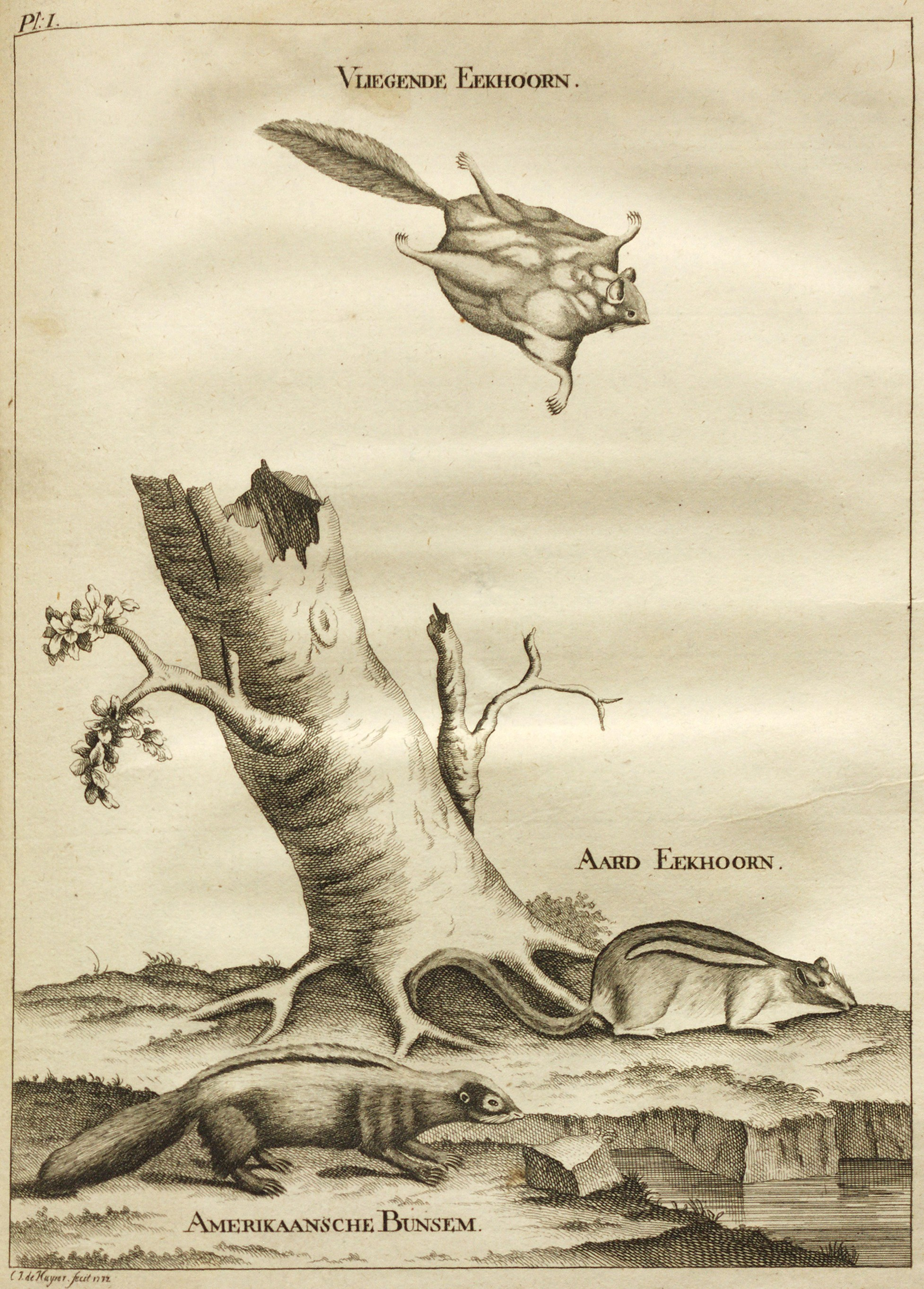 Page 140 of the 1772 Dutch translation of Pehr Kalm (1753–1761): En Resa til Norra America ["A travel to Northern America"].